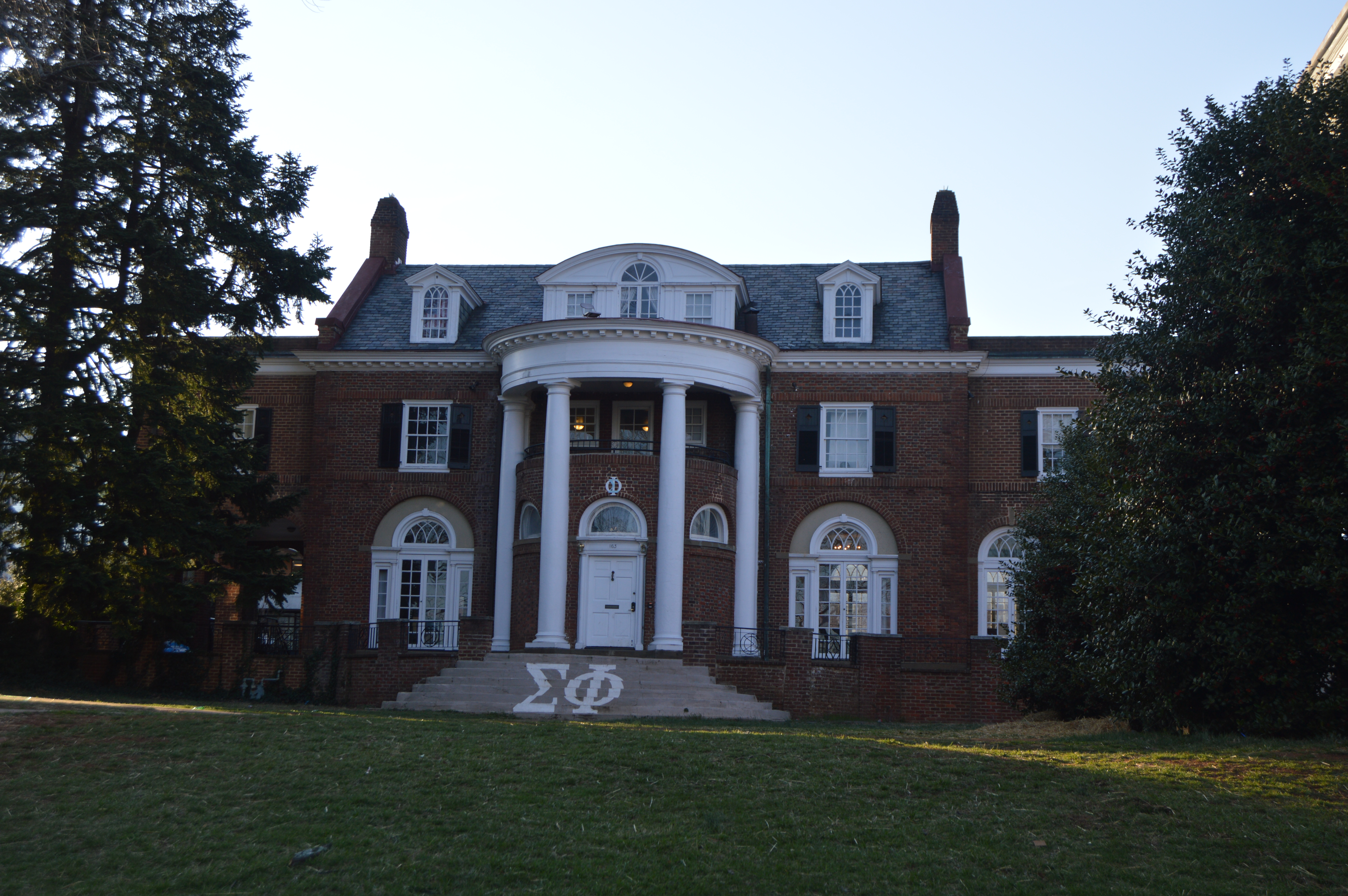 Front of one of the ΧΦ fraternity buildings on the campus of the University of Virginia, located between Rugby Road and Bayly Drive in Charlottesville, Virginia, United States. It is part of the Rugby Road-University Corner Historic District, a historic district that is listed on the National Register of Historic Places.